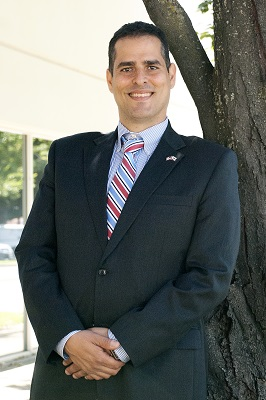 Lawrance Bohm profile picture.